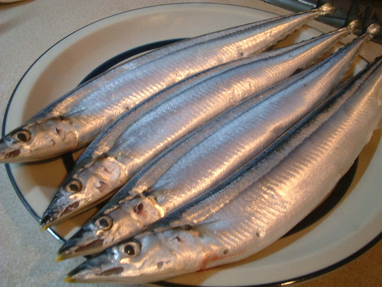 Sanma's are easy to go bad. Recently you can buy sanma's for sashimi. It is amazing.